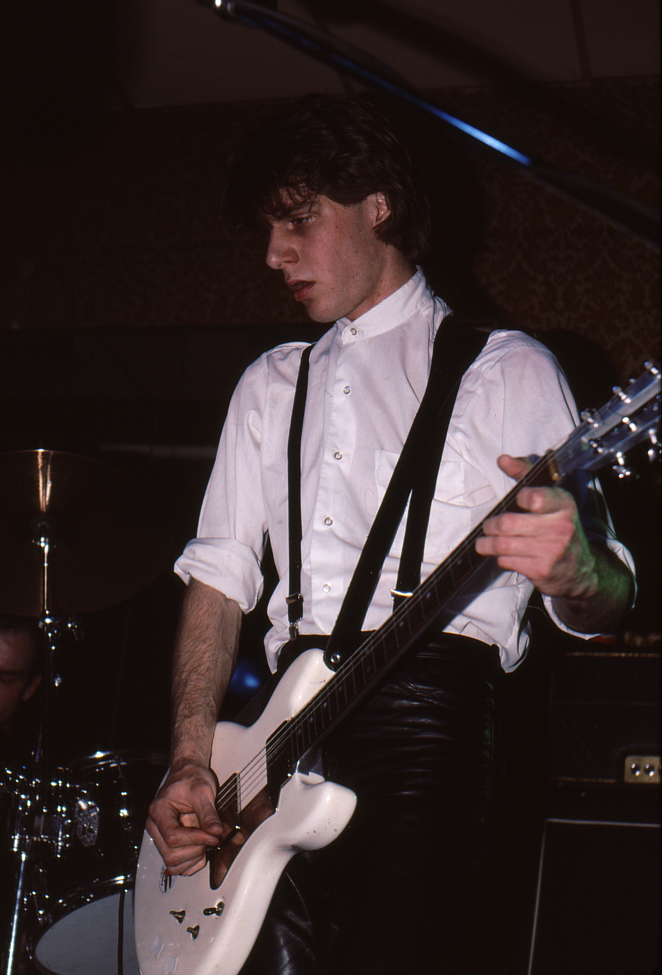 Hugh Gladish of Breeding Ground performing at the Queen City Tavern, Toronto, April 25, 1982